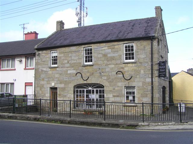 Market House, Blacklion It has been converted to the tourist information office